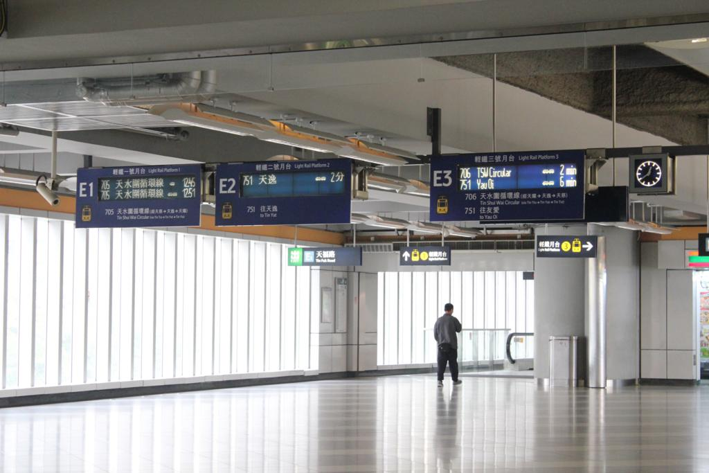 tin shui wai mtr-lightrail station exchange